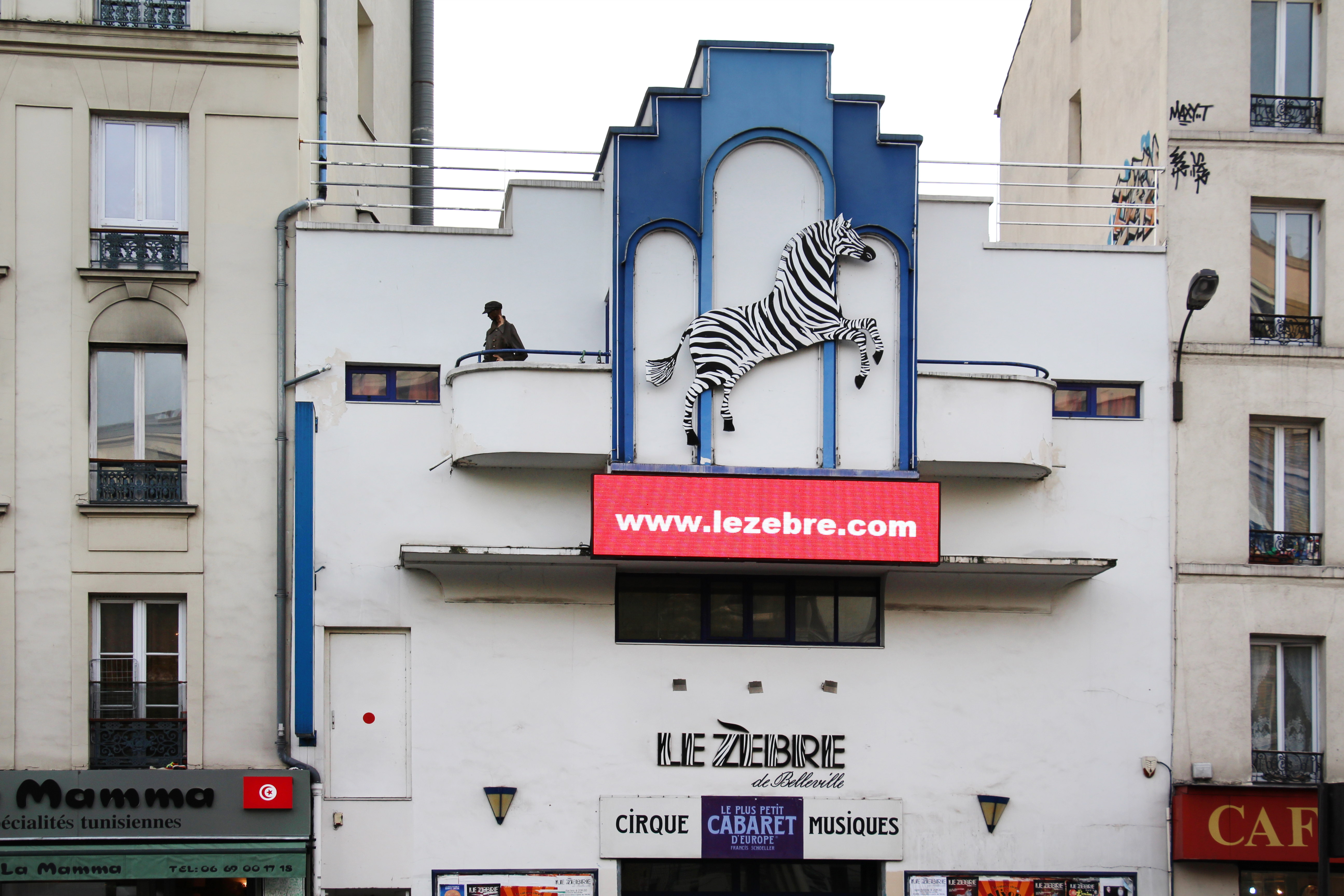 (Folie-Méricourt) Boulevard de Belleville Former "Berry Zèbre" movie theatre built in 1939 which closed in 1994. After years of dereliction, it has been renovated and reopened in 2003 as a new cabaret.